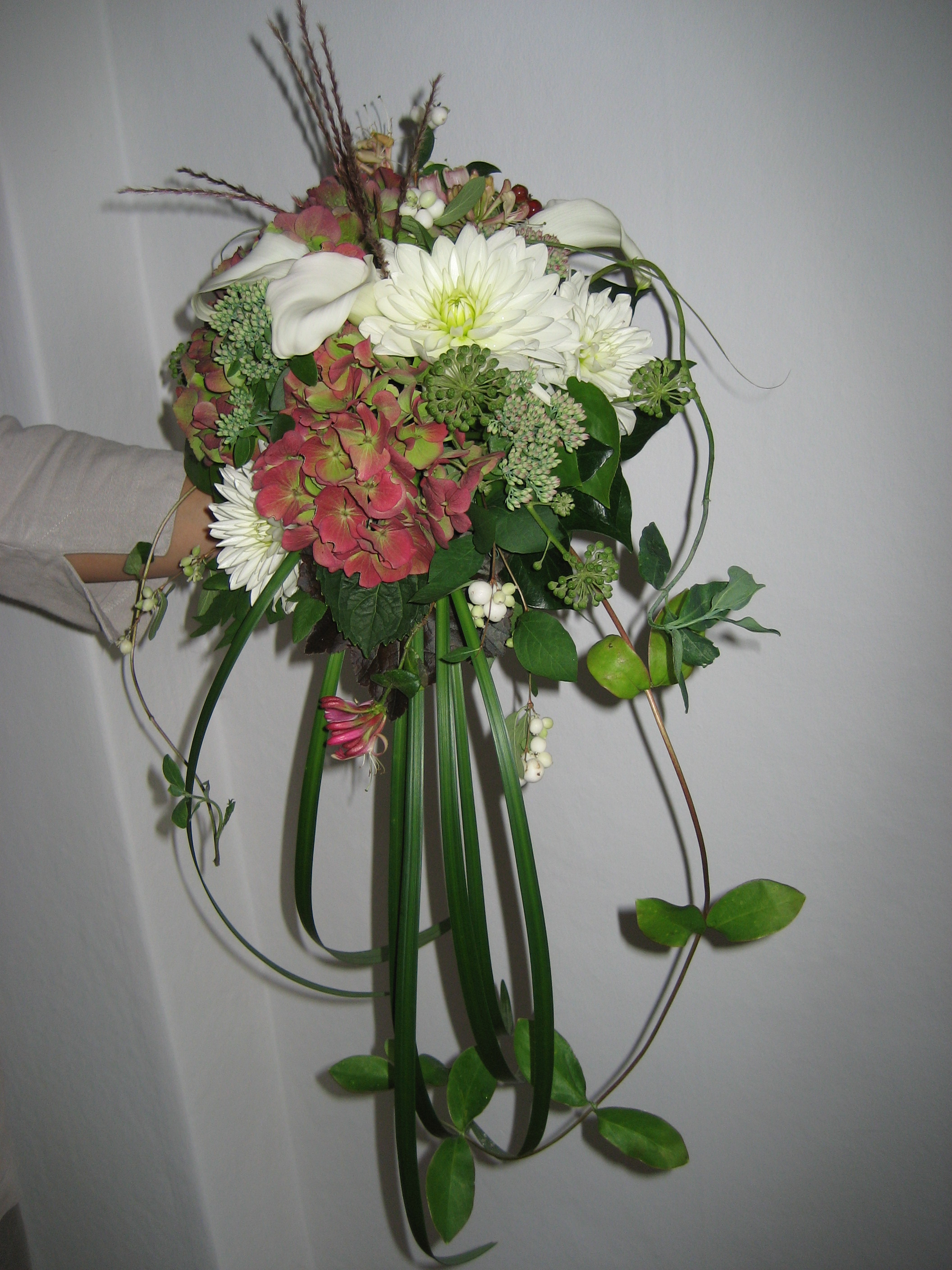 Bridal bouquet by Madelenes Grönska